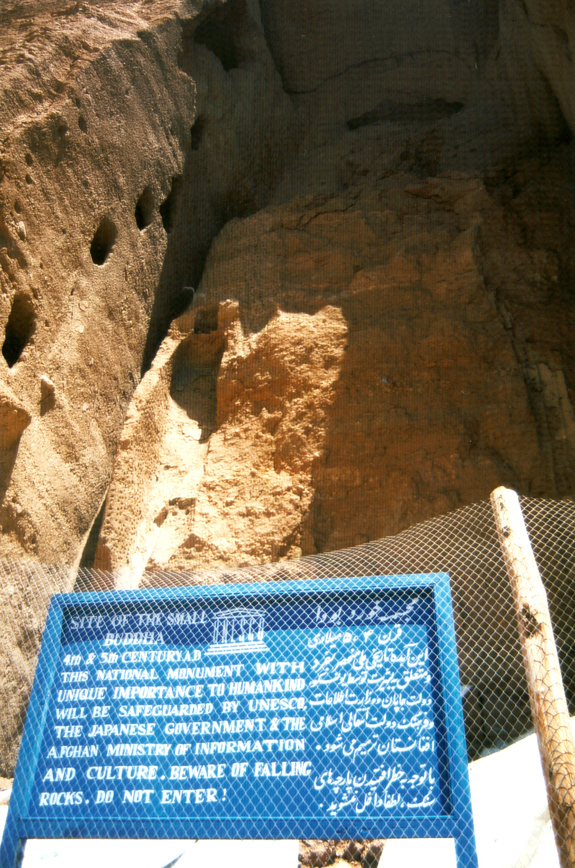 Cultural Landscape and Archaeological Remains of the Bamiyan Valley